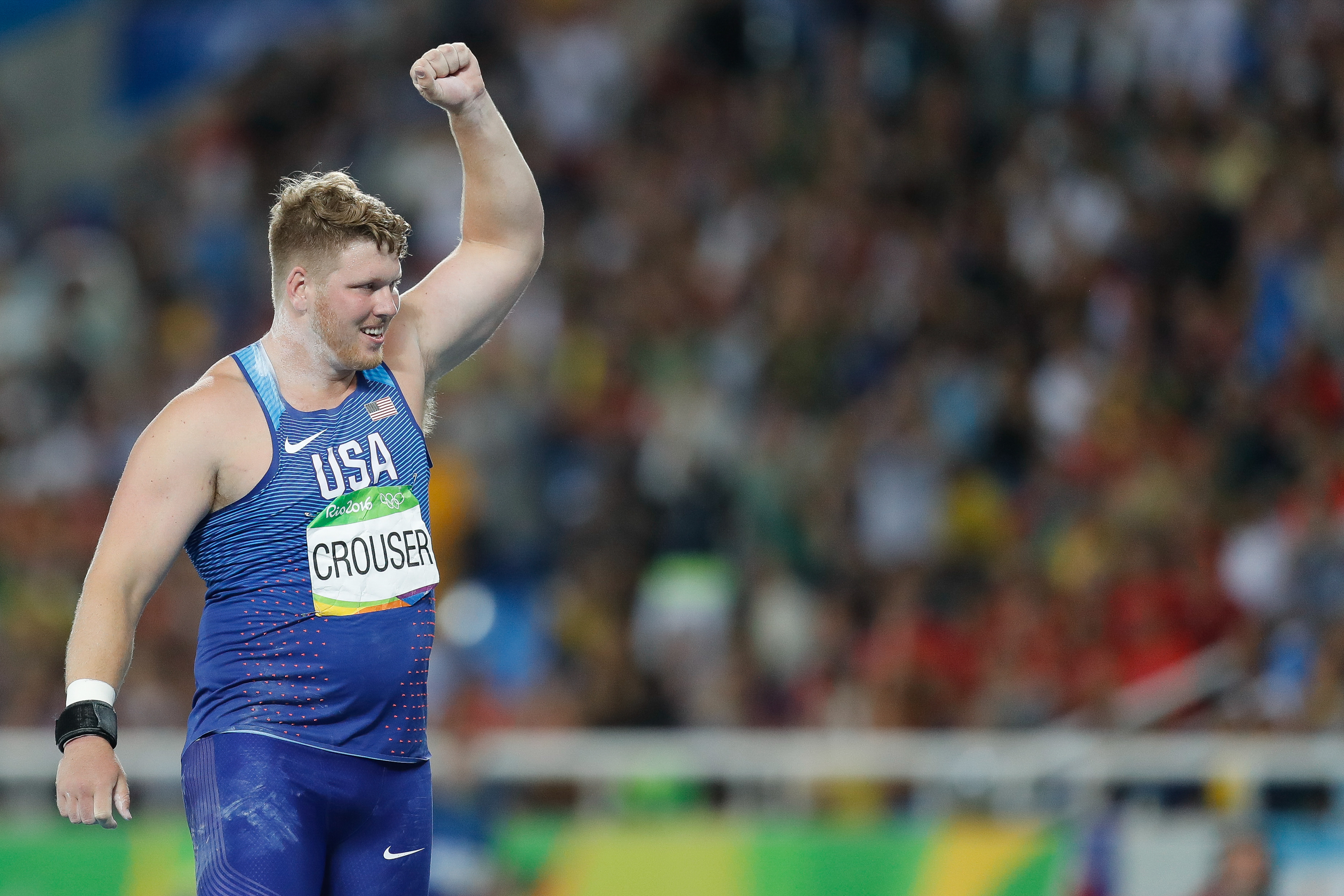 Rio de Janeiro - Norte-americano Ryan Crouser bate recorde olímpico e leva ouro no arremesso de peso nos Jogos Rio 2016, no Estádio Olímpico. (Fernando Frazão/Agência Brasil)